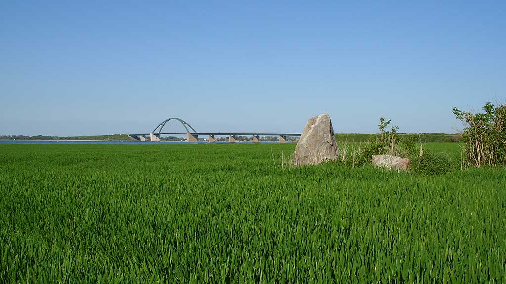 Grossenbrode Huenengrab